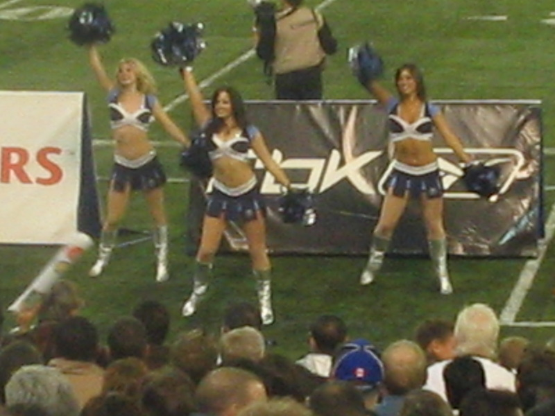 Toronto Argonauts Blue Thunder Cheerleaders at an Argonauts vs. Hamilton Tiger-Cats game at Rogers Centre (SkyDome), Toronto, Ontario, Canada.